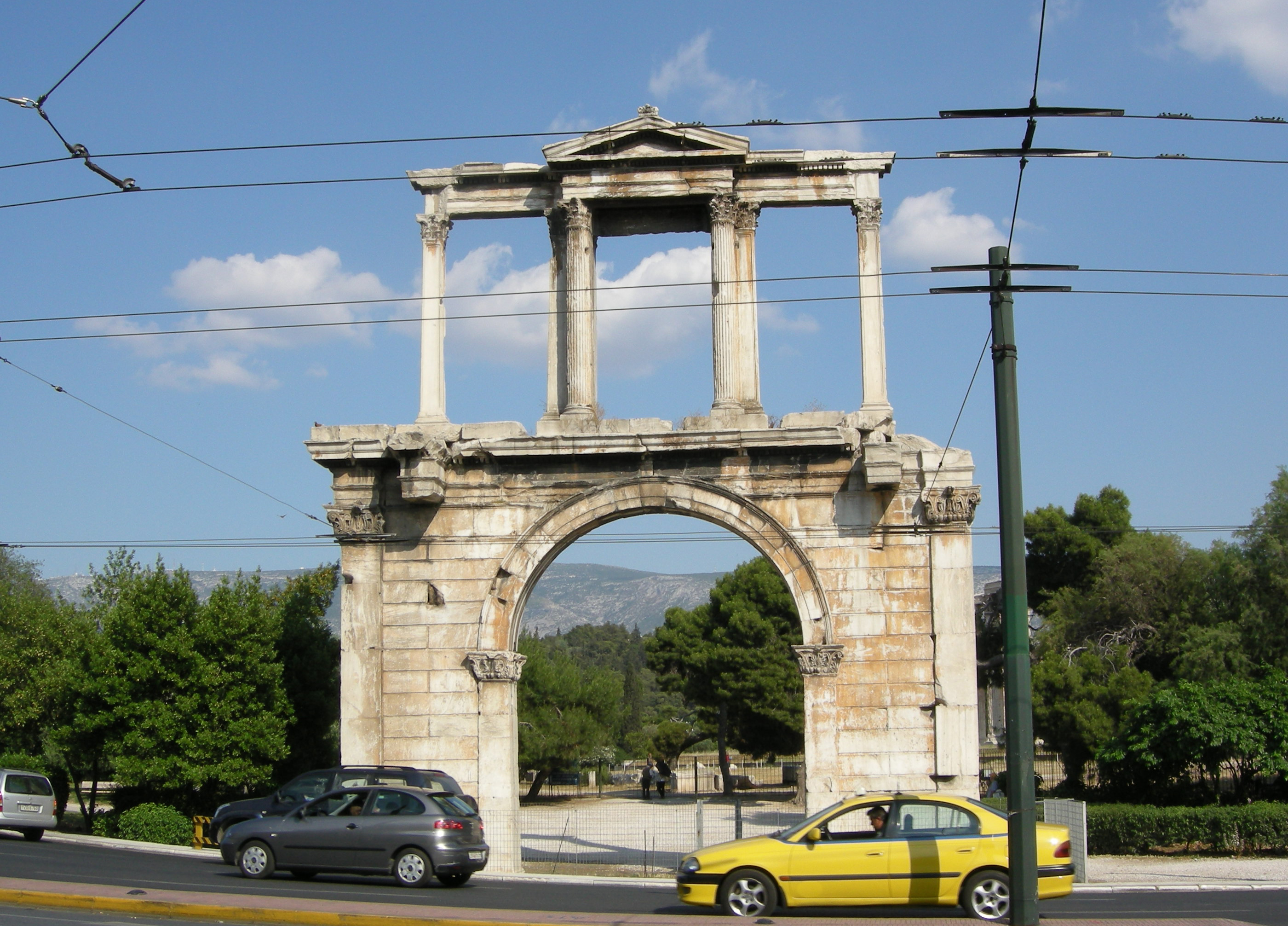 Hadrian Arch (Athens)